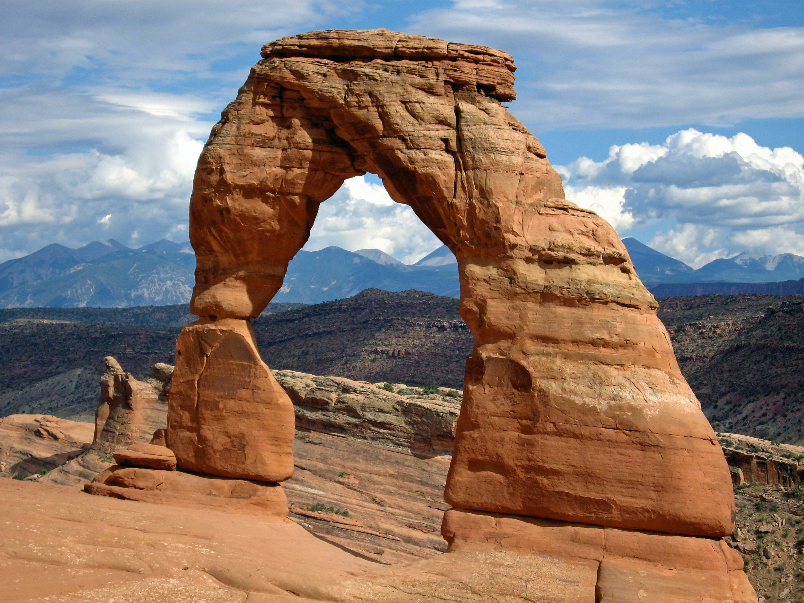 Delicate Arch, Arches National Park, USA